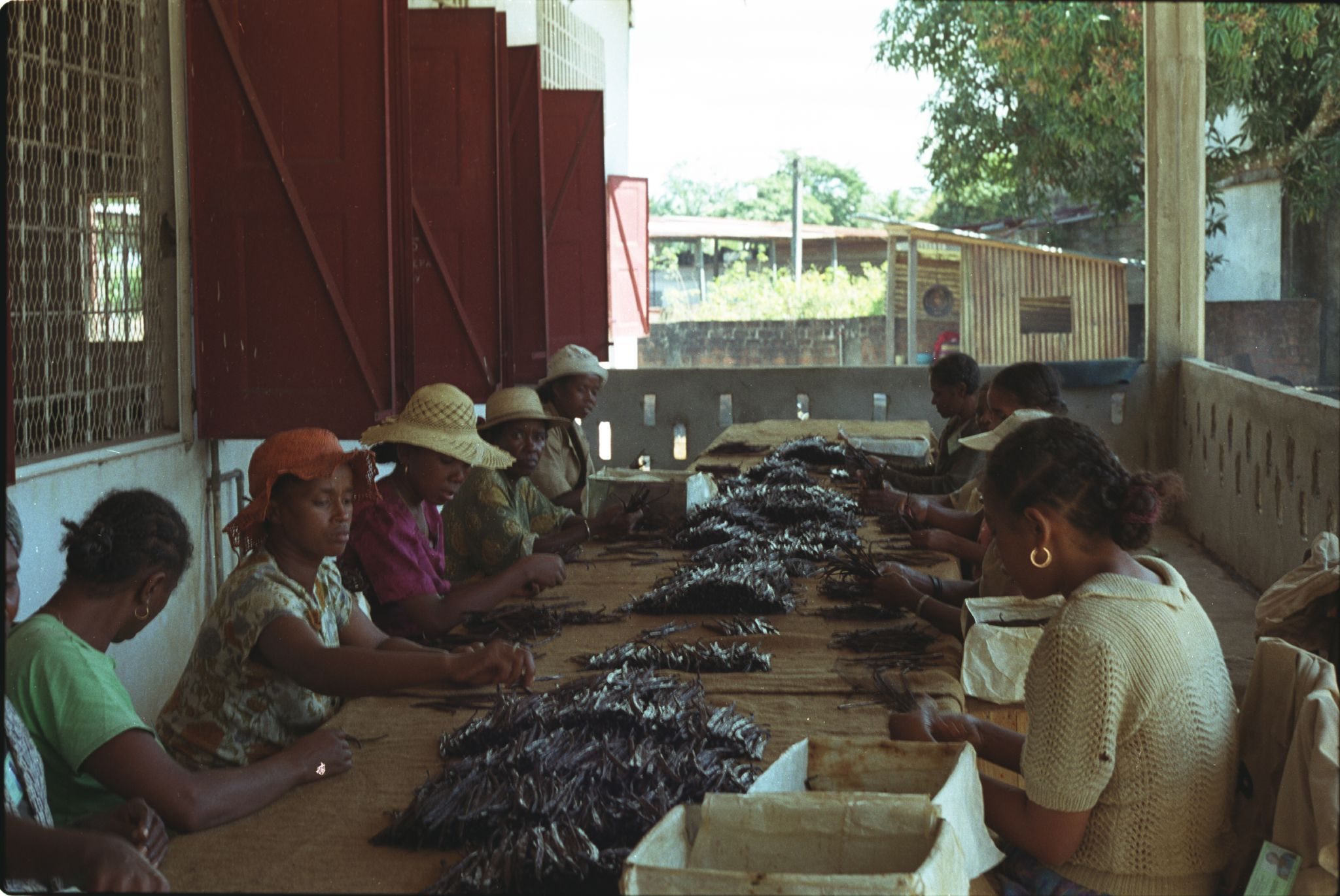 Photo by Jonathan Talbot, World Resources Institute. 2001. Vanilla is a major export for Madagascar, but competition from other nations is reducing its value on the world market. Here, women grade vanilla beans. Sambava, Madagascar.